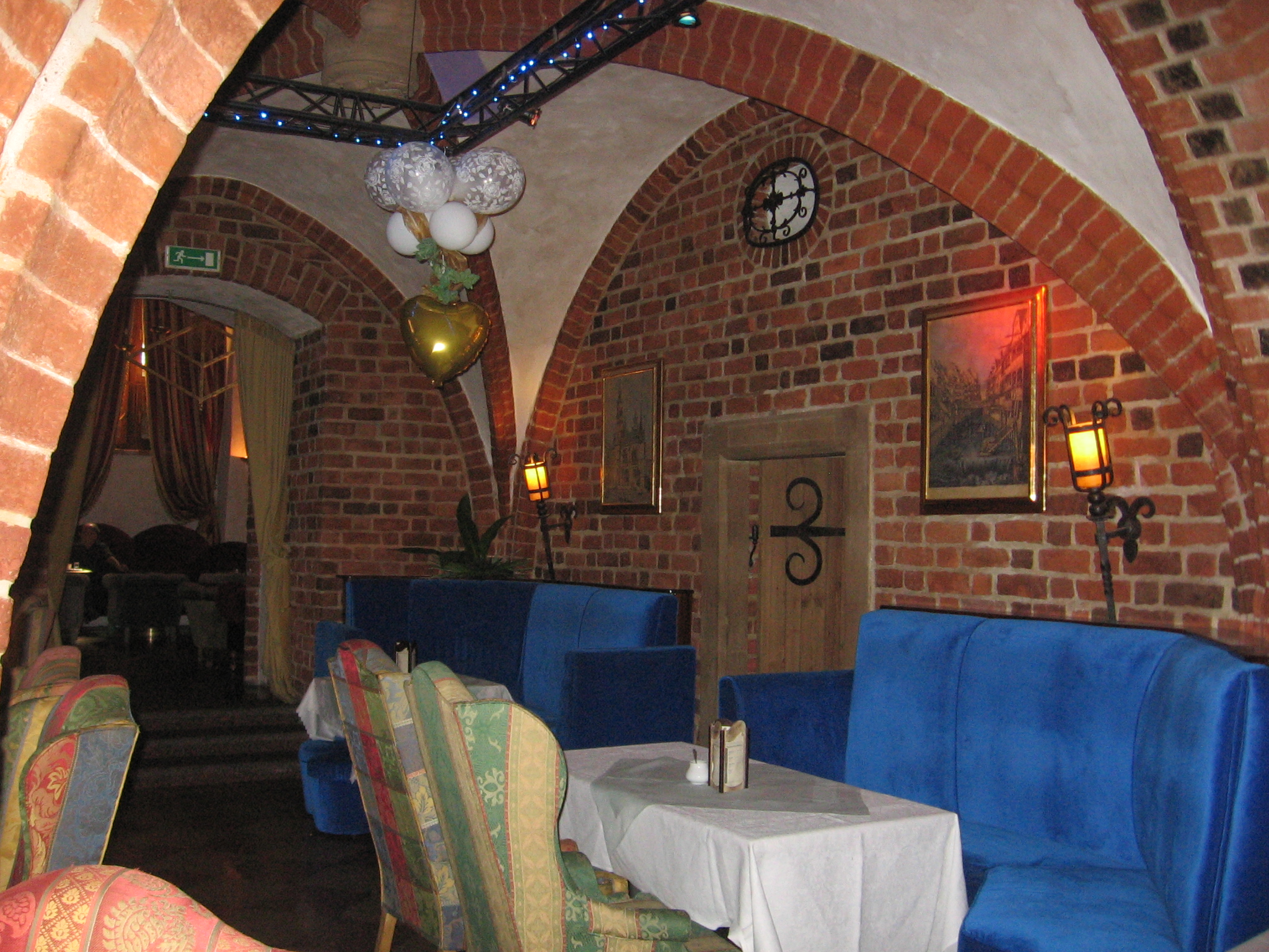 Piwnica Świdnicka in Wrocław, inside